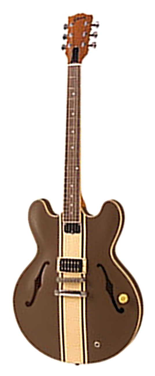 The Gibson Tom DeLonge Signature ES-333. This is the finish of the original Tom used during Blink's last few years. This is the only finish available for purchase.